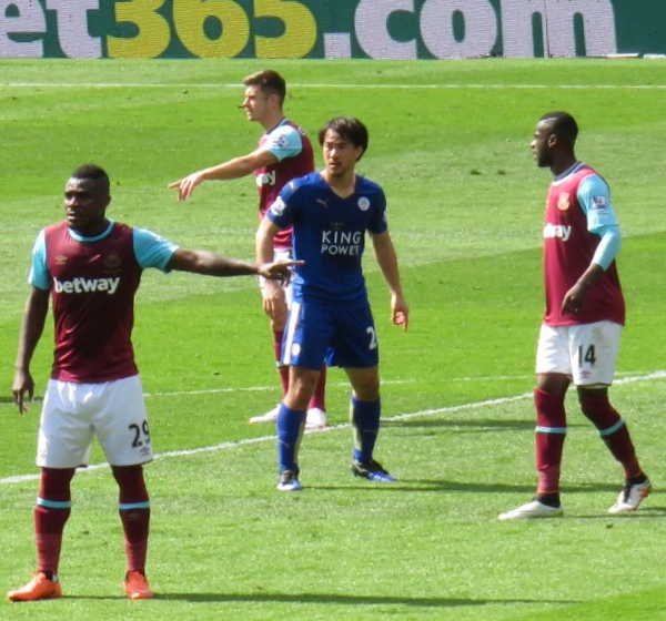 Shinji Okazaki playing for Leicester City